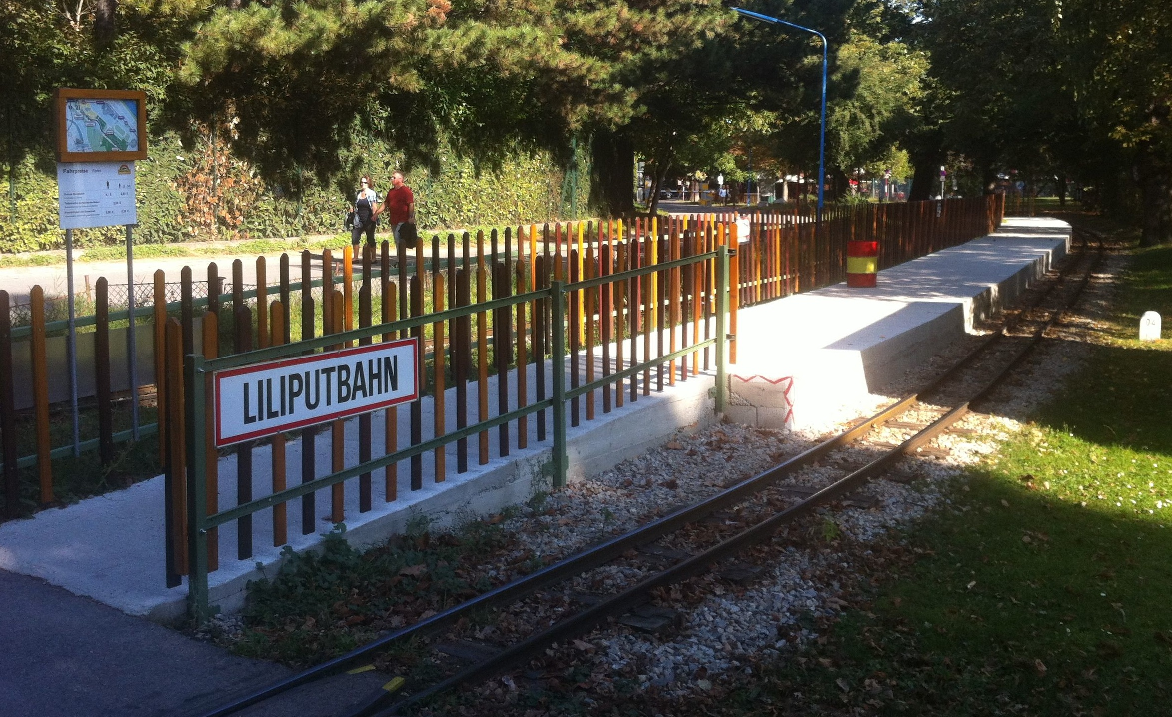 The Swiss House railway station of the Prater Liliputbahn, a 15 inch gauge railway in Vienna, Austria.